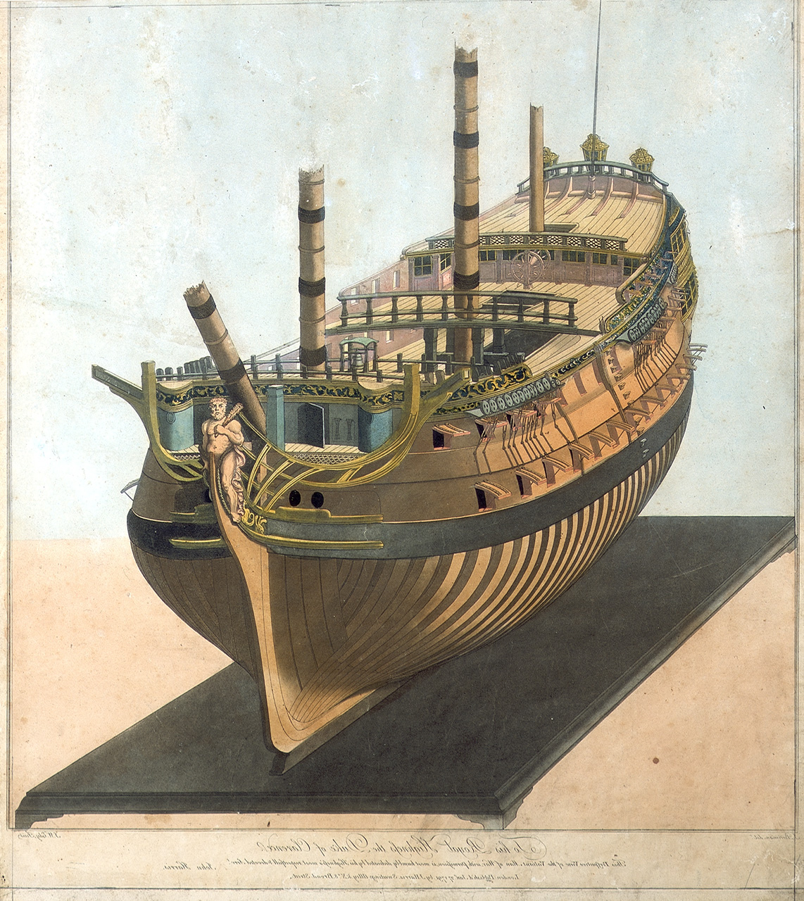 Perspective (bow) View of the Valiant Man of War (ship model) Hand-coloured.; Stored in mount with PAH9184.